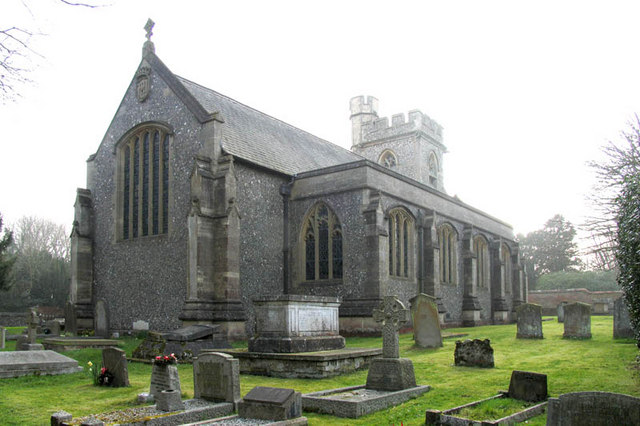 St Michael, Chenies, Bucks